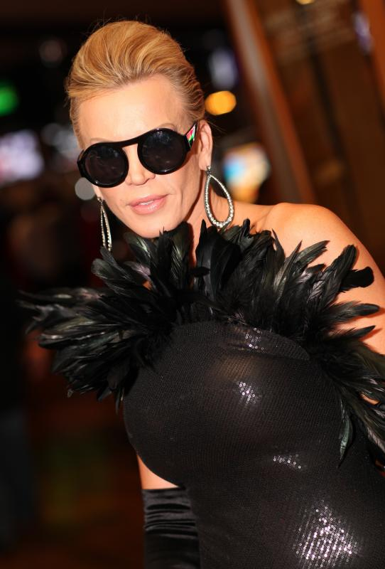 Amber Lynn dressed in black. Photos from the 2013 AVN Awards held at the at the Hard Rock Hotel & Casino in Las Vegas. Please provide photographer credit when using, tweeting, etc... Photo by Michael Dorausch This photo is licensed under a Creative Commons license. If you use this photo within the terms of the license or make special arrangements to use the photo, please list the photo credit as "Michael Dorausch" and link the credit to . Thank you to everyone for being so accommodating during the days I took photos, it's much appreciated.